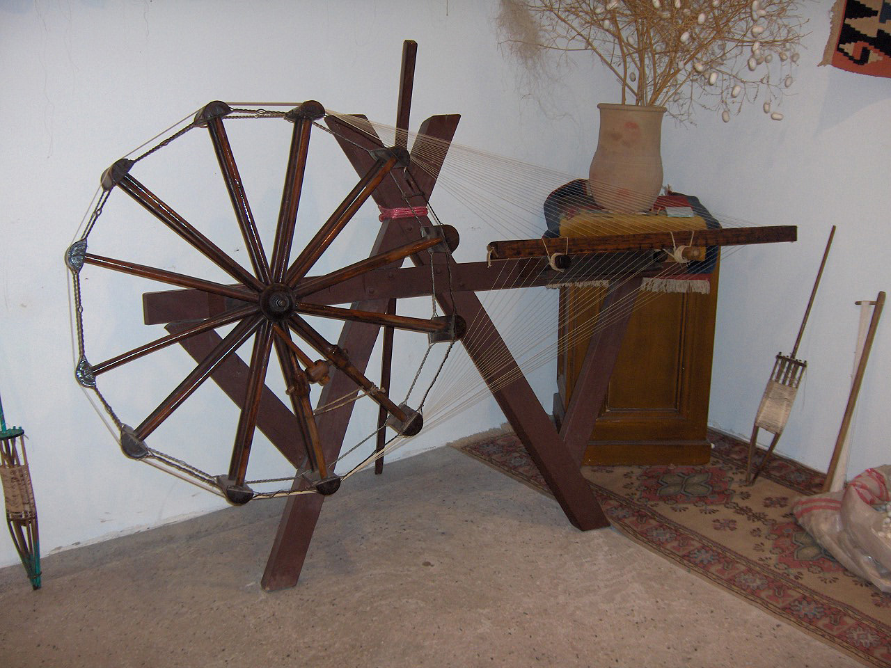 Reeling the silk filaments onto a wheel; Hadosan, Urgüp, Cappadocia, Turkey